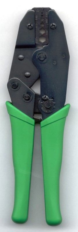 Crimp plier for contact pressing of N, R-SMA, TNC kontakter for RG-174, RG-58 and HDF/LMR200